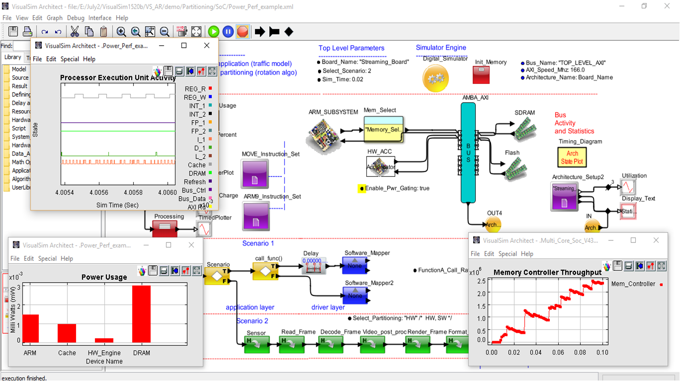 VisualSim Architect is the modeling and simulation software for systems engineering exploration of performance, power and functionality. Using this environment, users can construct debug, simulate, analyze and share their specifications in a graphical environment.